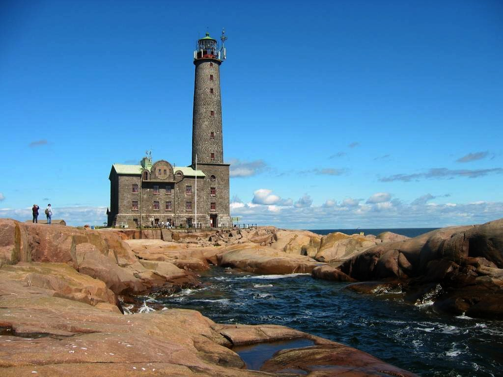 The lighthouse Bengtskär, 2007.